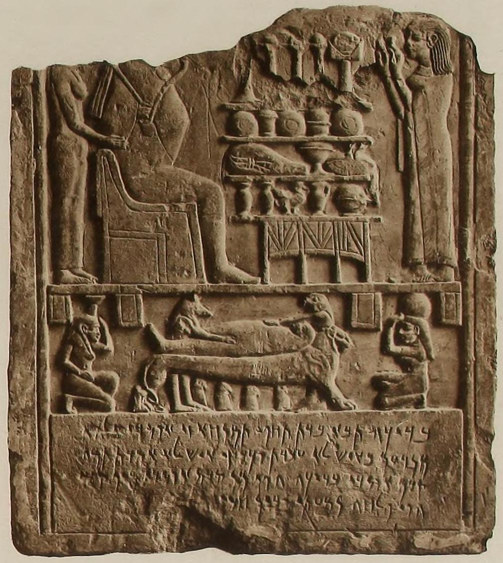 Carpentras Stela, in CIS II 141